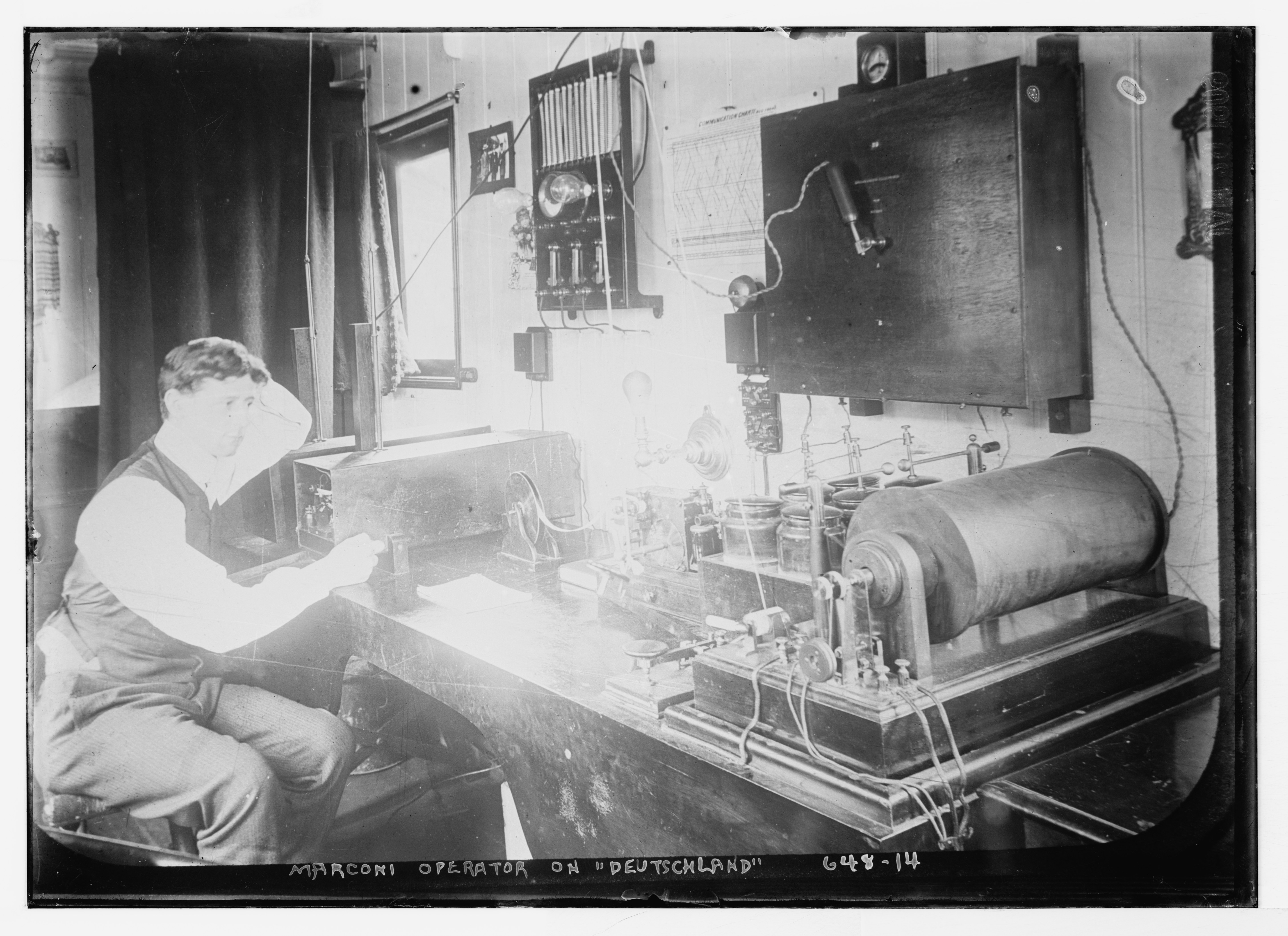 Title: Marconi operator aboard ship "Deutschland", at his instruments Radio operator in the radio room of the German ocean liner SS Deutschland probably in 1914, showing the early Marconi wireless telegraphy equipment. On the right is the spark transmitter, consisting of an induction coil, Leyden jar capacitors behind it, spark gap, and an oscillation transformer ("jigger") inside the wooden box on the wall. The operator transmitted information by tapping on a switch called a telegraph key (visible behind coil) which turned the spark on and off, transmitting pulses of radio waves to spell out text messages in Morse code. On the left is the receiver, which recorded Morse code messages with an ink line on paper tape, which the operator later translated into text. The equipment was produced by the Marconi Wireless Telegraph Co and the radio operator was also an employee. British-Italian entrepreneur Guglielmo Marconi invented the first practical radio transmitters and receivers in 1896. The first major use of radio was on ships, to keep in touch with the shore and call for rescue in emergencies, and Marconi's company dominated the marine wireless industry throughout the spark era until the 1920s, to the degree that the ship radio room was called the "Marconi room". Abstract/medium: 1 negative : glass ; 5 x 7 in. or smaller. The center portion of the photograph is overexposed.